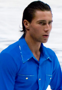 2010 Cup of Russia, free skating.